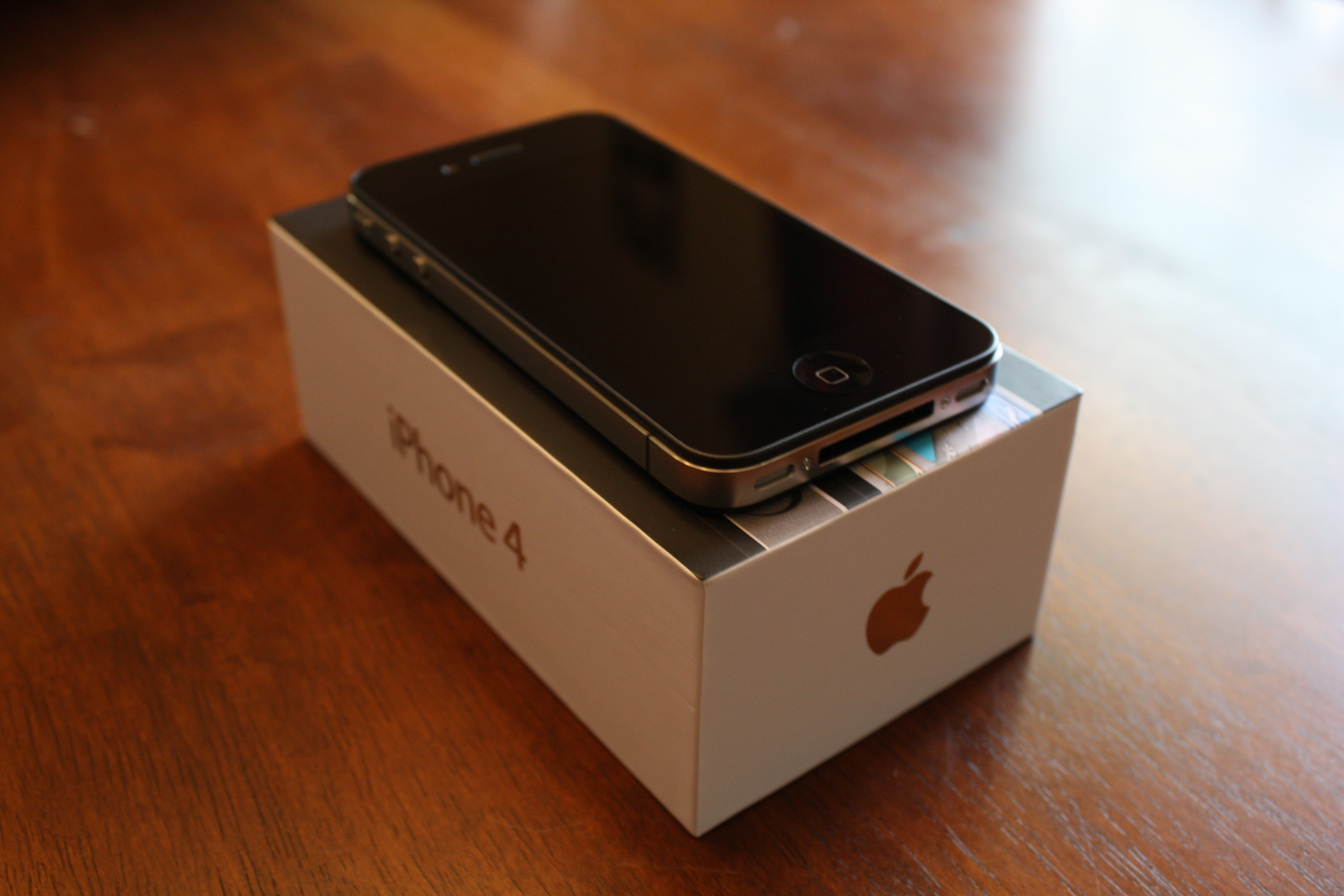 iPhone 4 unboxed